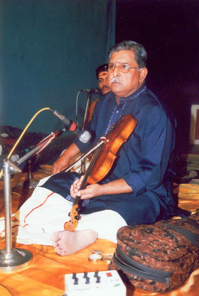 Thrissur.C.Rajendran is a noted Carnatic Violinist from Kerala, India.